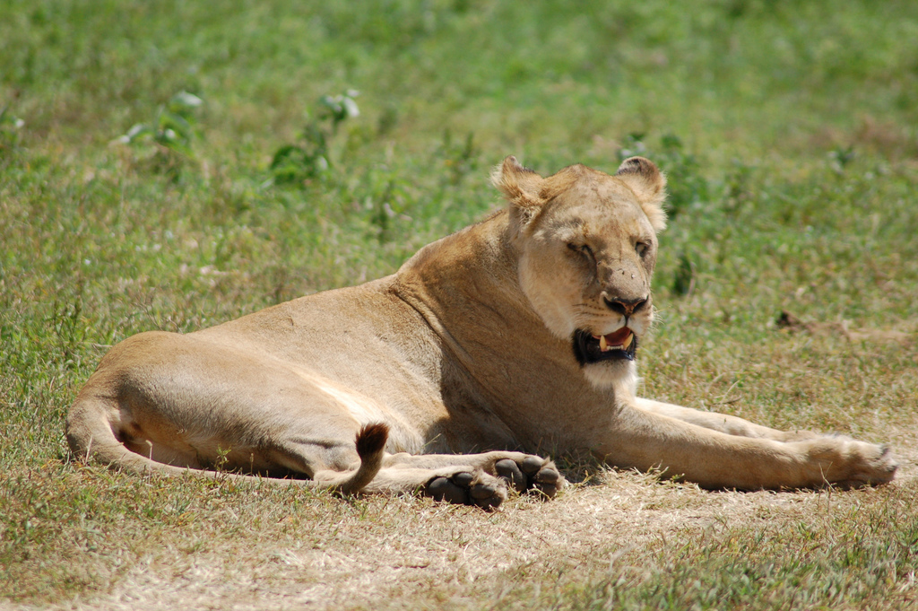 Ngorongoro Crater, Tanzania